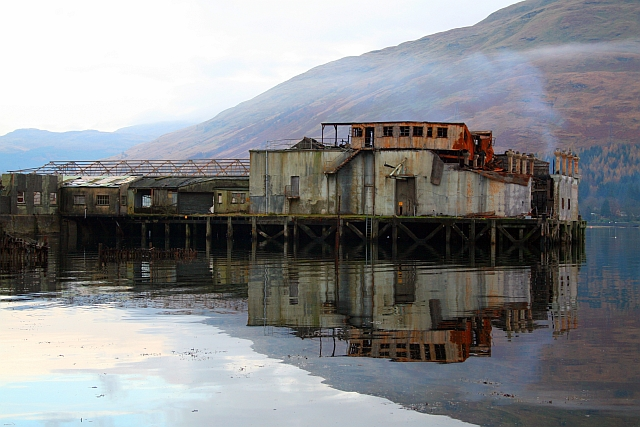 Arrochar Torpedo Testing Facility, near to Ardmay, Argyll and Bute, Great Britain. The former torpedo testing facility at the head of Loch Long. It was decommissioned in 1980 and is currently part demolished. Torpedoes were fired up Loch Long from tubes at the front of the facility. A boat stood by to recover the (unarmed) torpedoes where they were returned for analysis. The now roofless shed to the left and the main part of the building have tracks where torpedoes were stored and worked on. Hoists on the first floor lowered the torpedoes into the tubes. The control room at the top looking straight down the loch housed a camera. Behind the control room, above the loading shed, is office accommodation. The rest of the facility included housing and workshops but these have been sold off.